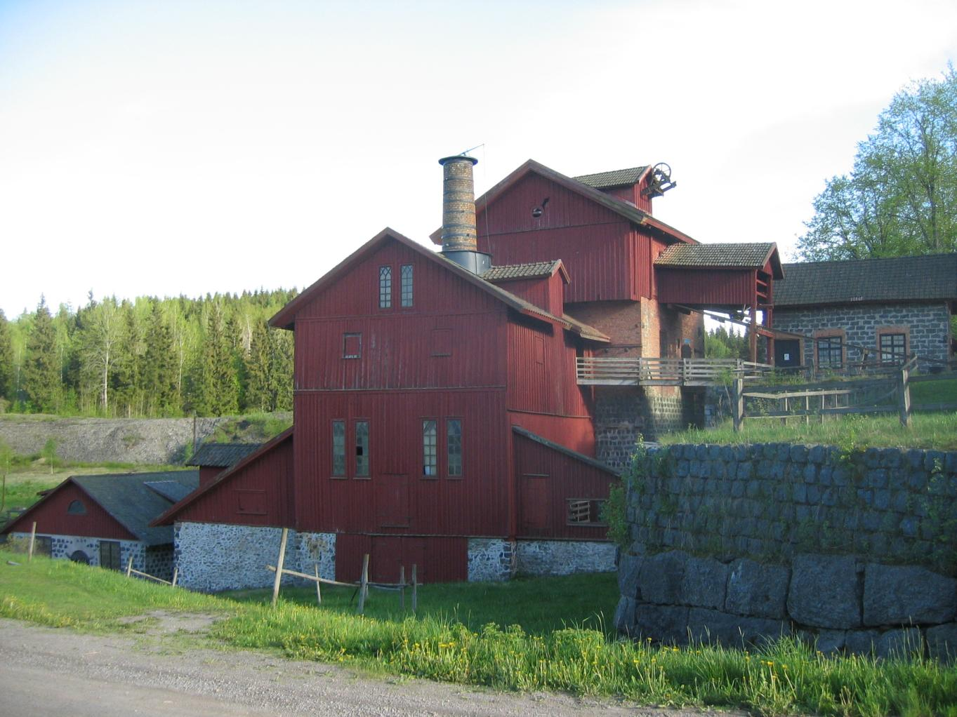 Ironworks at Granbergsdal in Värmland, Sweden, just north of Karlskoga. Seen from upstream.